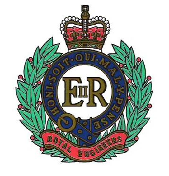 Badge of the UK Royal Engineers.